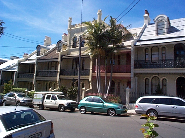 Taken by Michael Gardner 20 September 2006 FYI - These terraces are in Woollahra. The opposite side of Jersey Rd is Paddington.